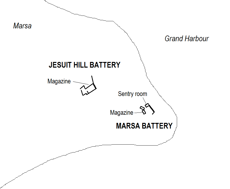 Map of Jesuit Hill Battery and Marsa Battery in Marsa, Malta. Their site is now occupied by the Marsa Power Station.